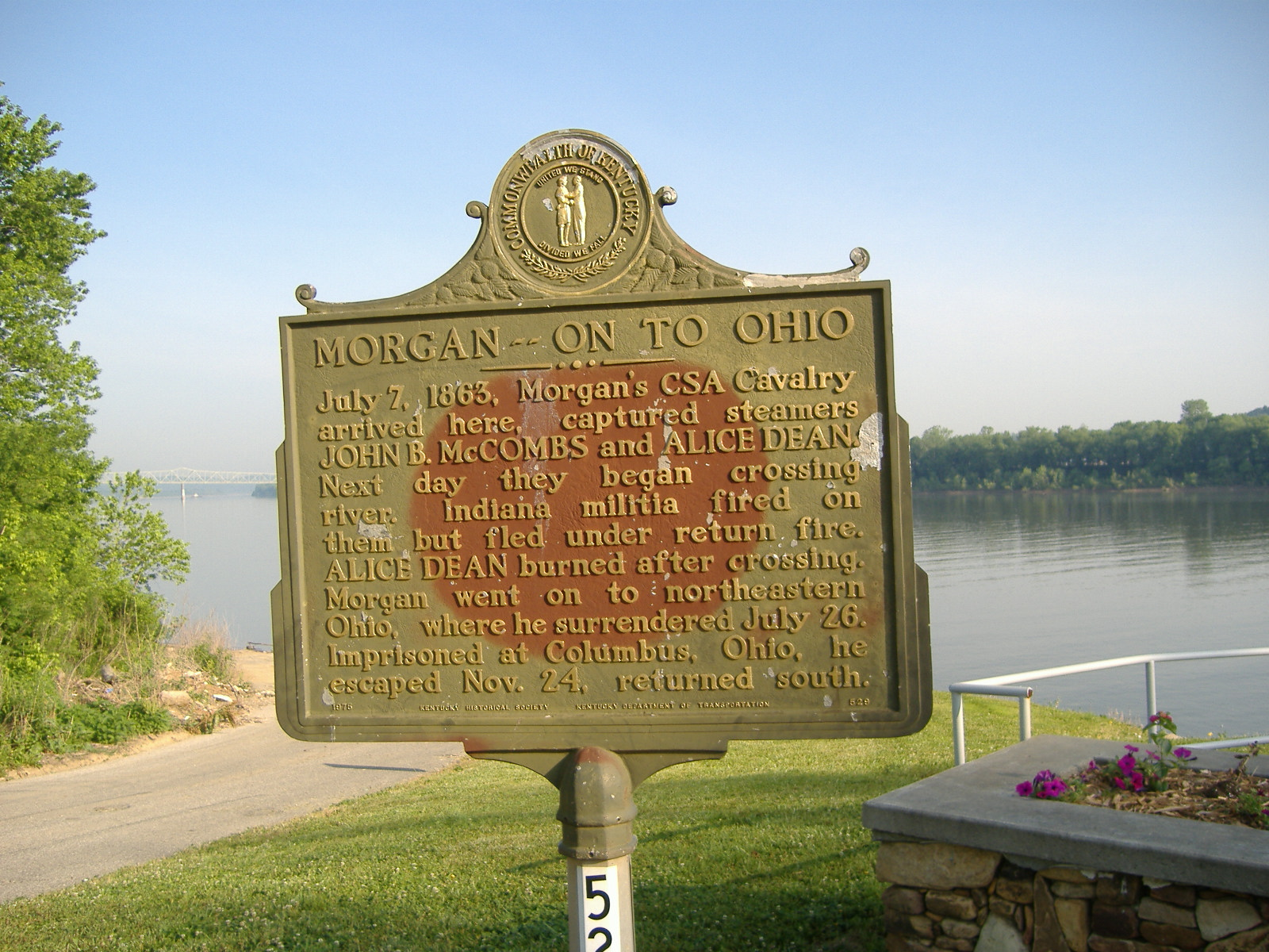 A historical marker marking Morgan's Raid at Brandenburg, Kentucky, United States.